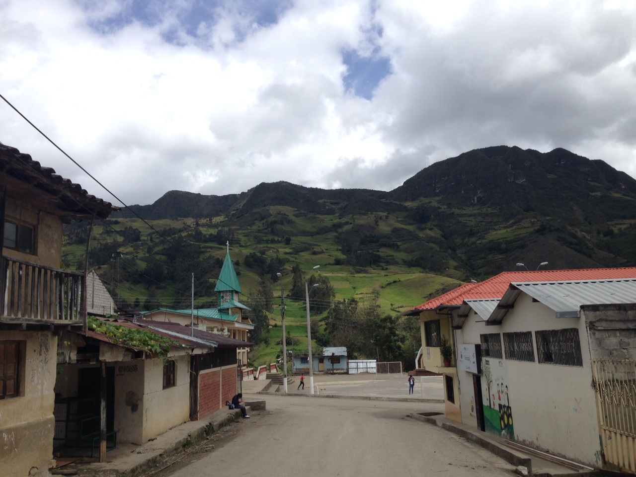 Principal's main street and church.